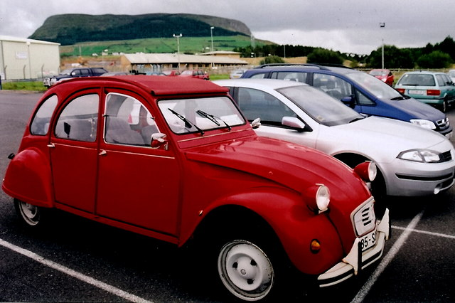 Sligo Airport - Parking area & Knocknaree Mountain